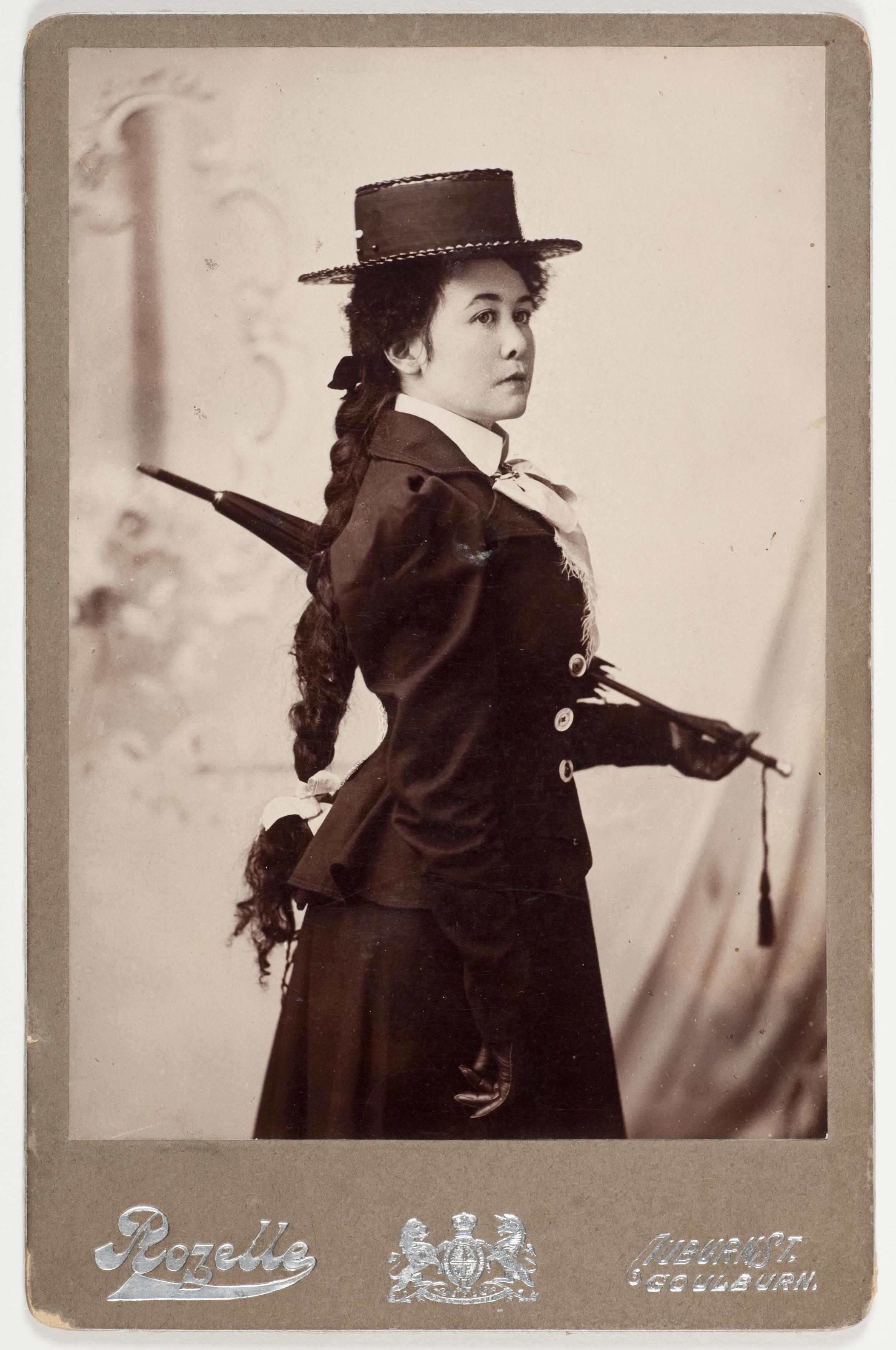 Call number: P1 / 595 Digital ID: a4215094 Format: cabinet photoprint Find more detailed information about this photograph: Search for more great images in the State Library's collections: From the collection of the State Library of New South Wales